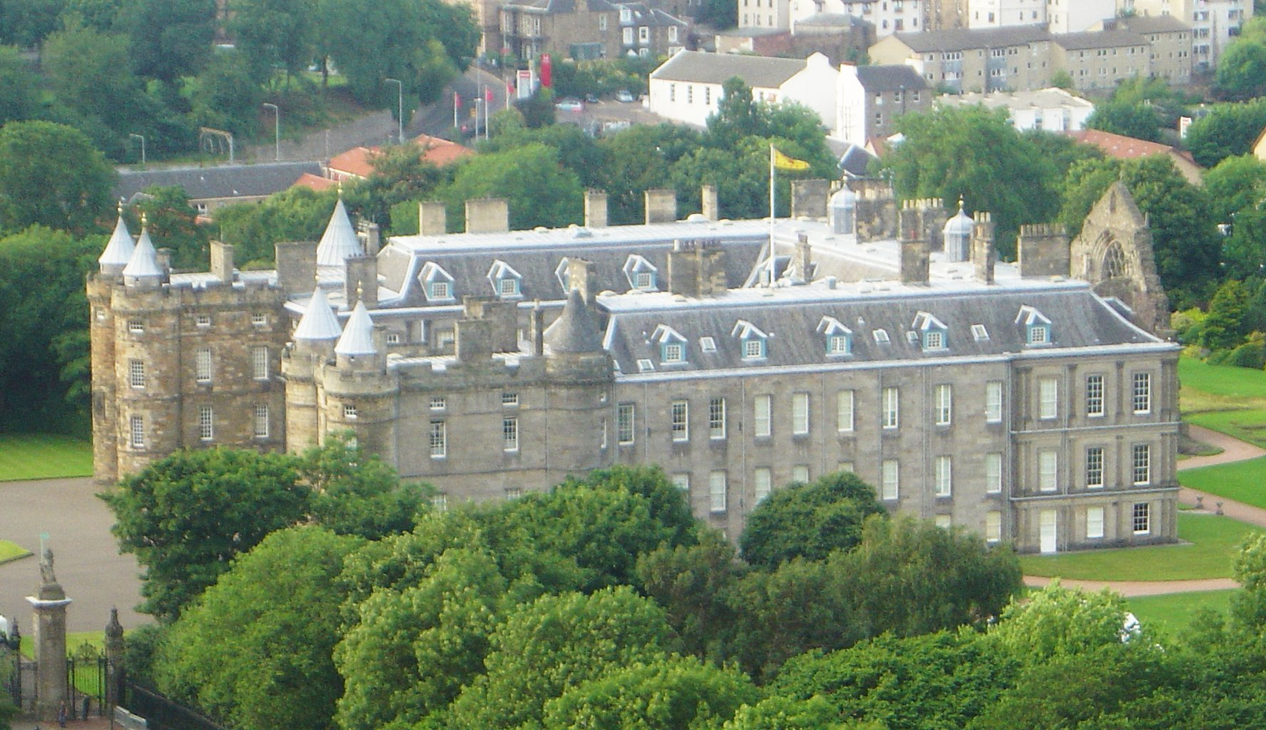 Holyrood Palace seen from the Salisbury Crags, Holyrood Park